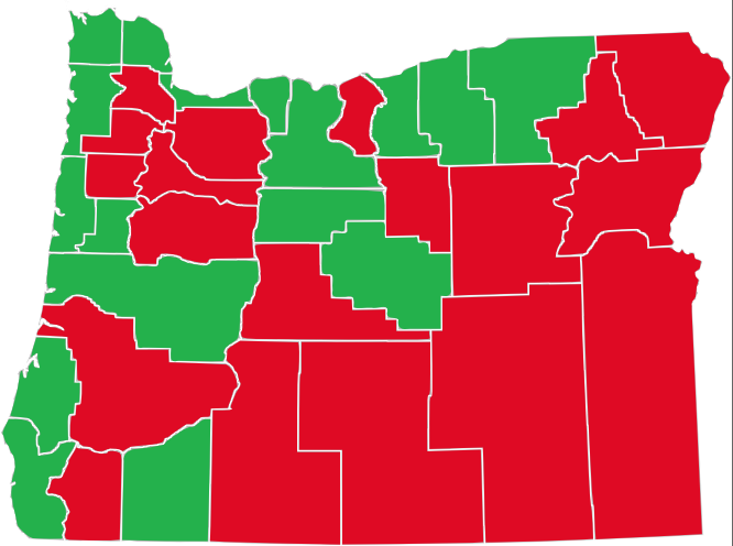 Results of Oregon Ballot Measure 25 (2002) by county